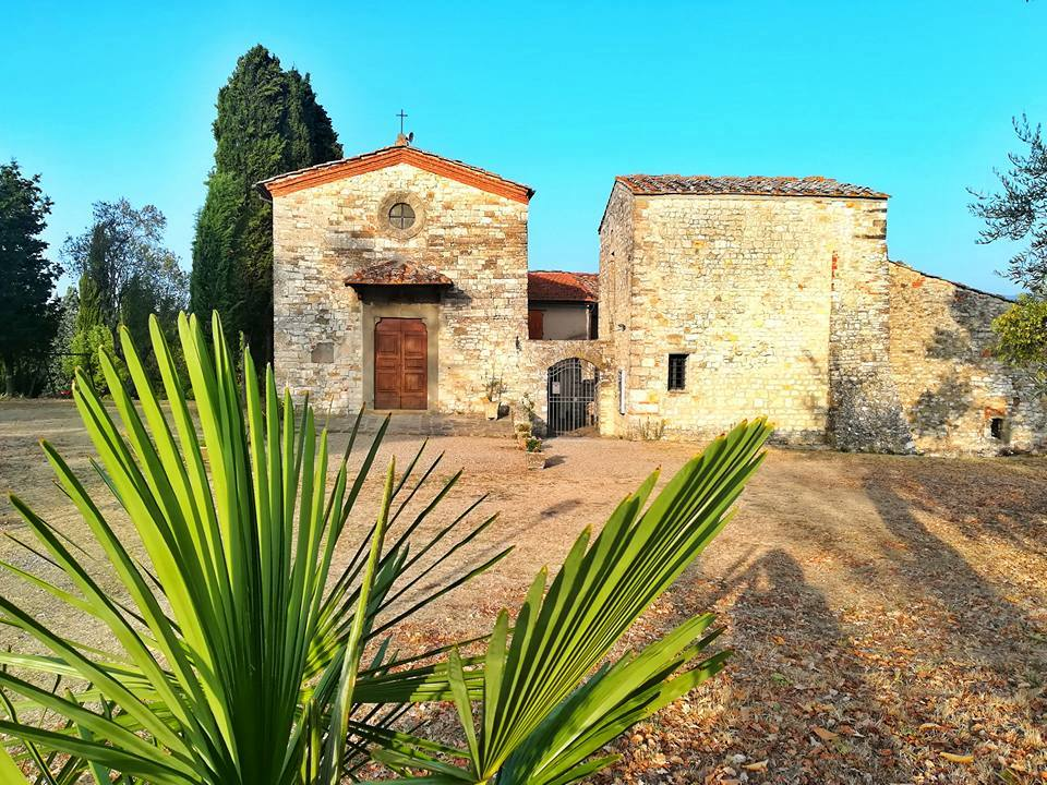 Church of San Pietro in Perticaia Rignano sull'Arno